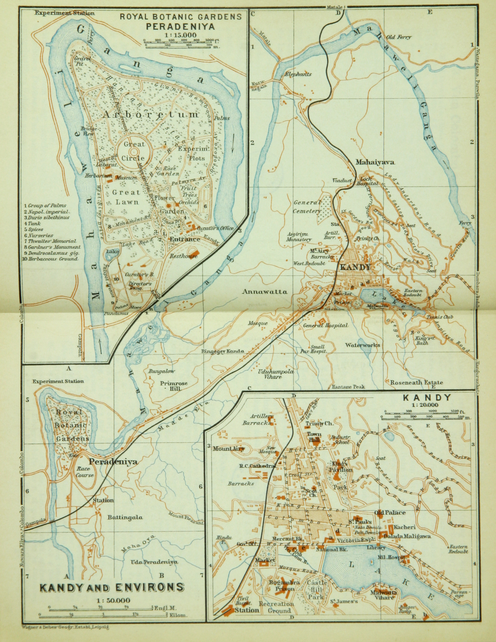 Map of the city of Kandy and environs (1:50,000), incl. two smaller, inserted maps showing Kandy city centre (1:20,000) and the Royal Botanical Gardens at Peradeniya (1:15,000). Labelled in English.